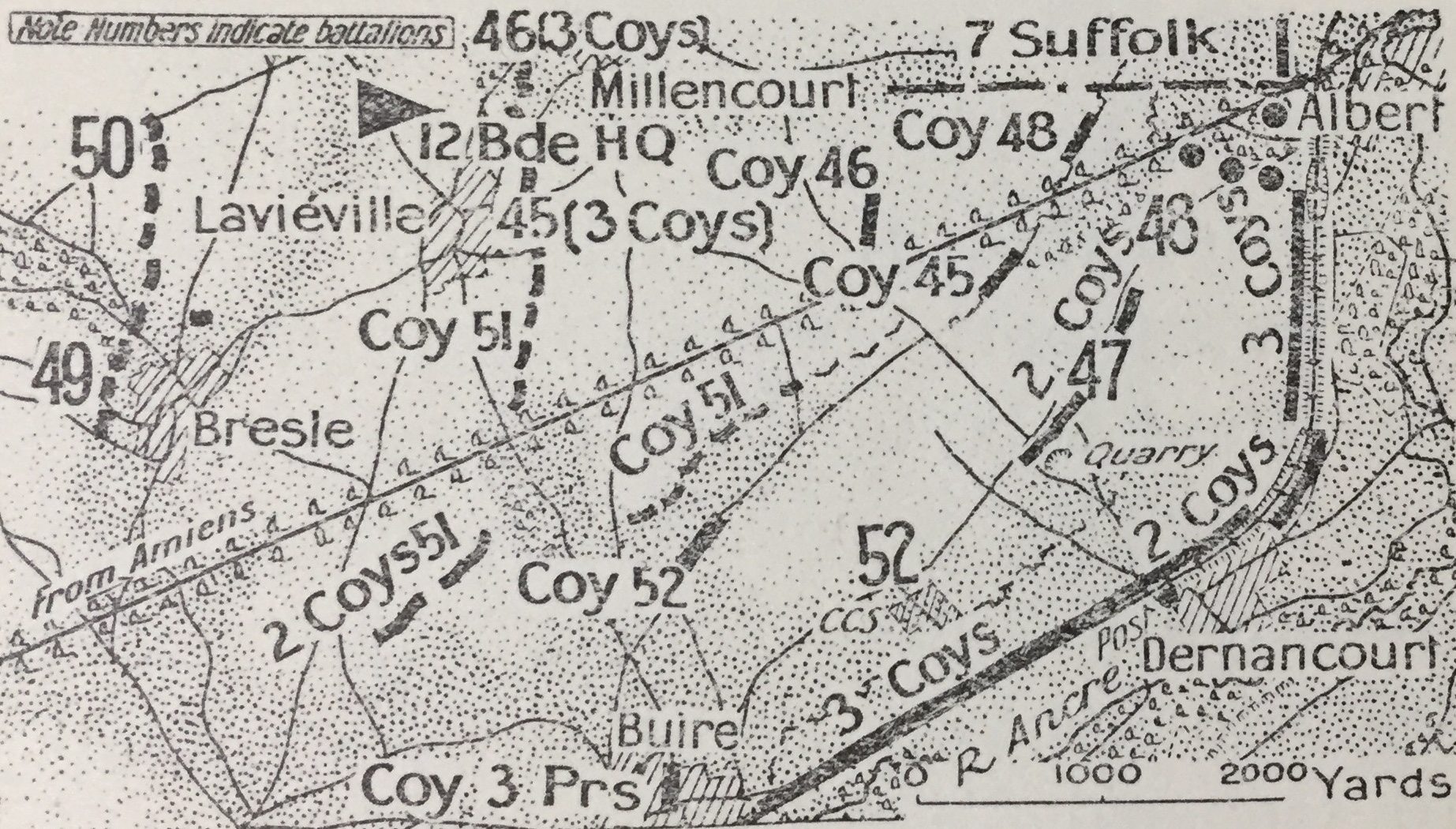 Map of the overall Allied dispositions of the Second Battle of Dernancourt 1918